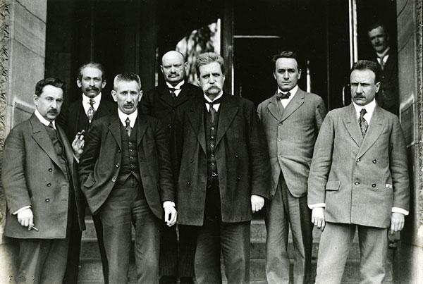 Swedish Social Democratic leader Hjalmar Branting (center) with the Hungarian delegation: Emanuel Buchinger, Jacob Weltner, Zsigmund Kunfi, J. Garami, D. Bokanyi and S. Jaszai during the 1917 Stockholm Peace Conference. Gustav Möller of Sweden in the background to the right.